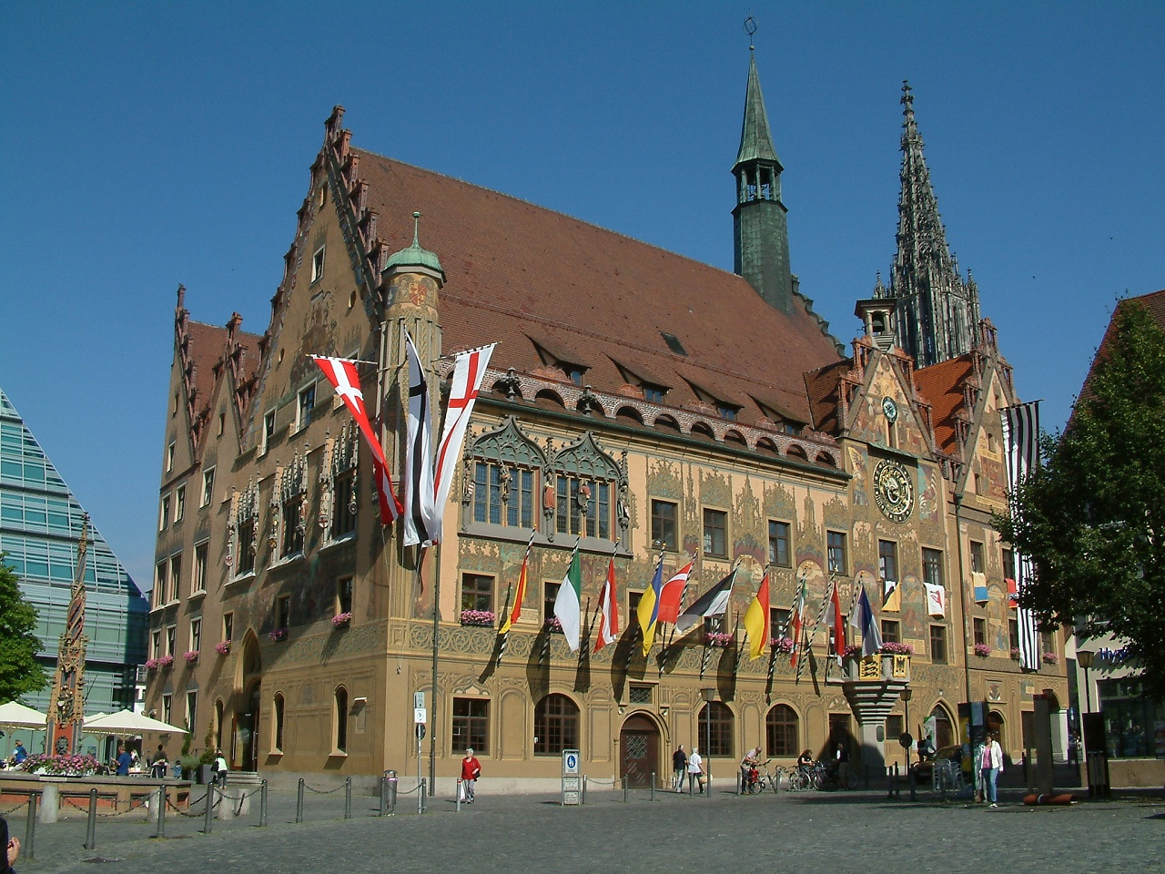 Town hall – Ulm, Germany